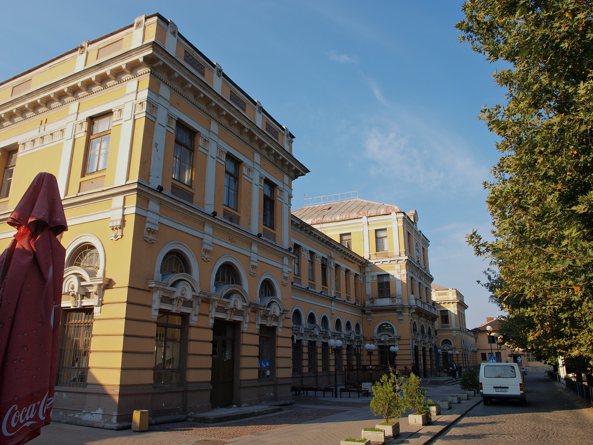 Facade of the central railway station of Plovdiv, Bulgaria